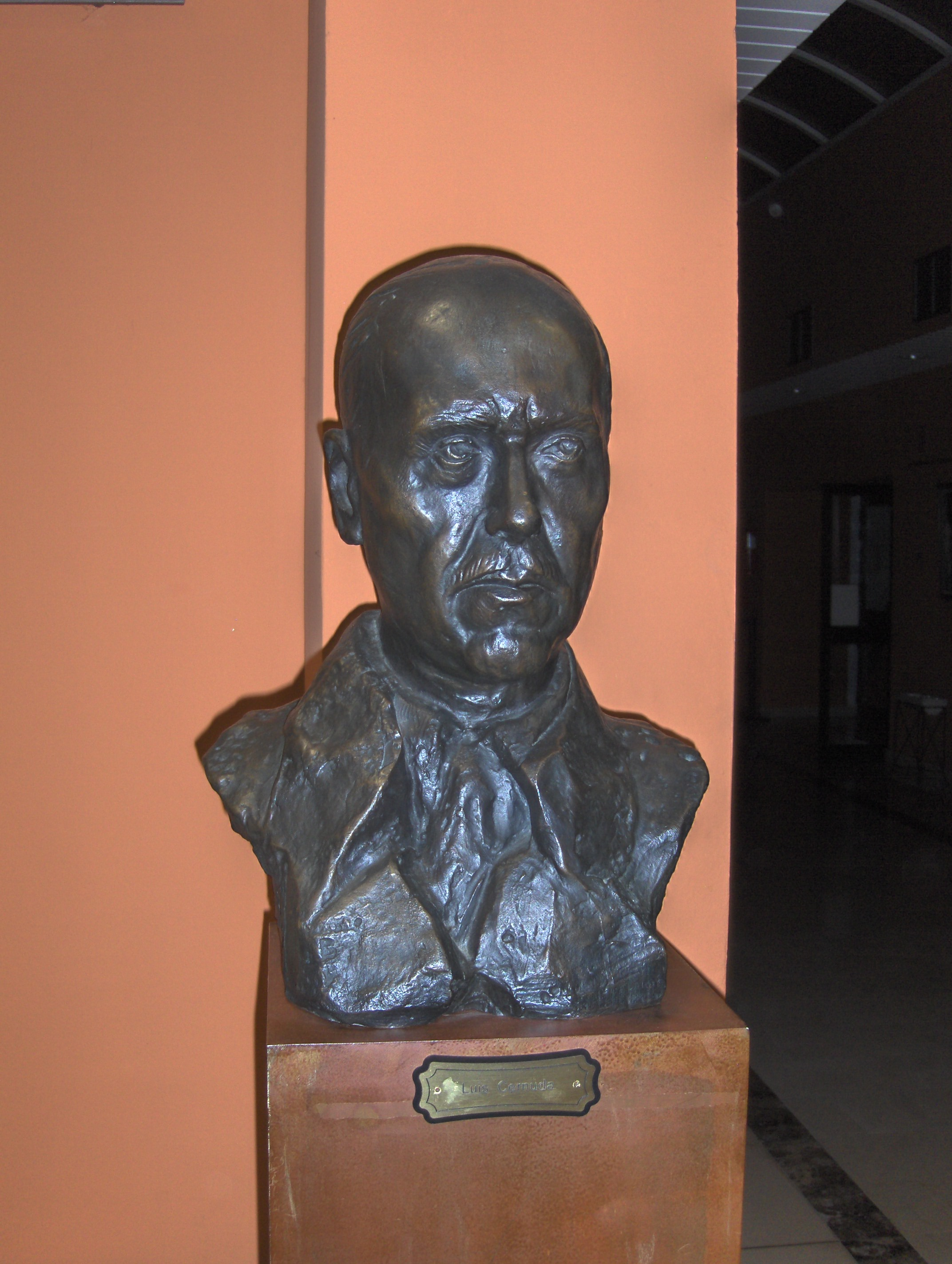 Busto de Luis Cernuda en Estepona.